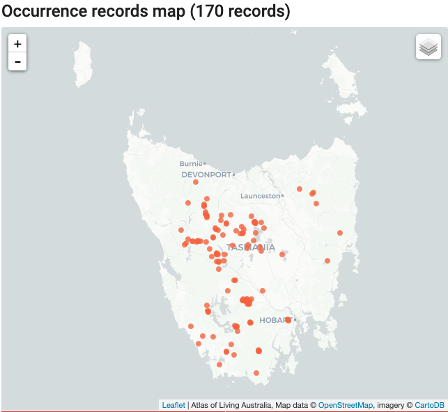 Occurence records (distribution) of C. diemensis subsp. diemensis from Atlas of Living Tasmania